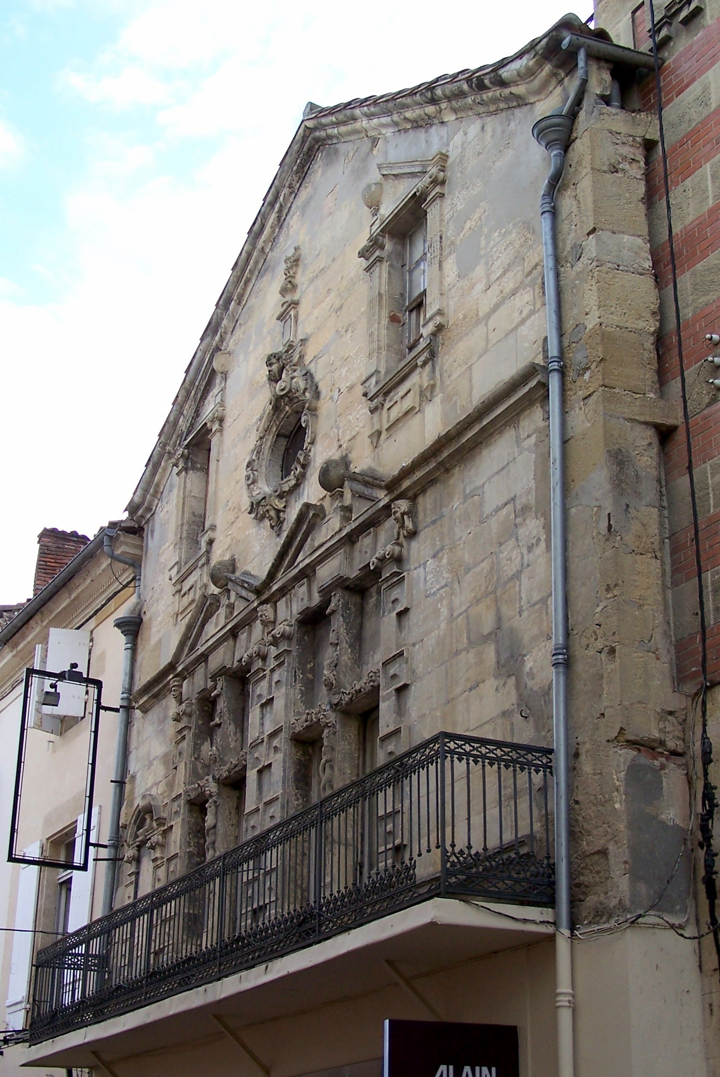 Church of Langon (Gironde, France)